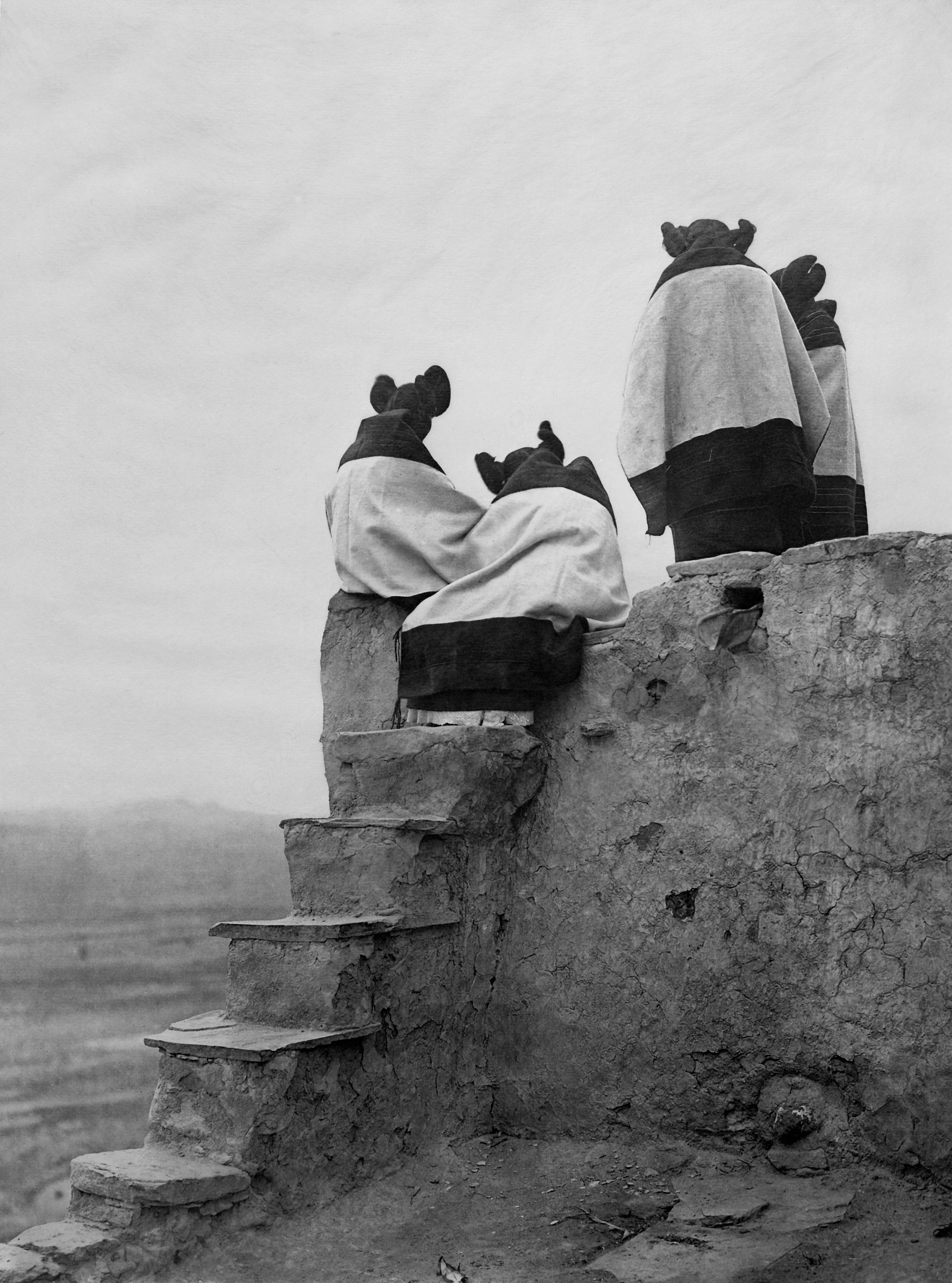 4 Hopi women on the topmost roof of Walpi Pueblo looking down at the plaza.